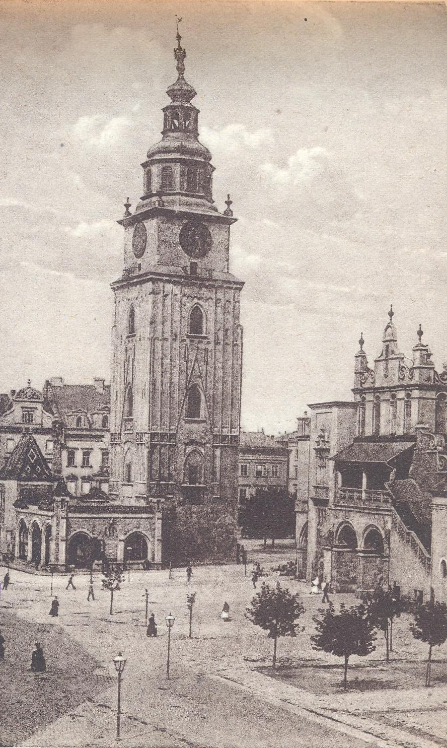 Town Hall Tower, Krakow, Poland.